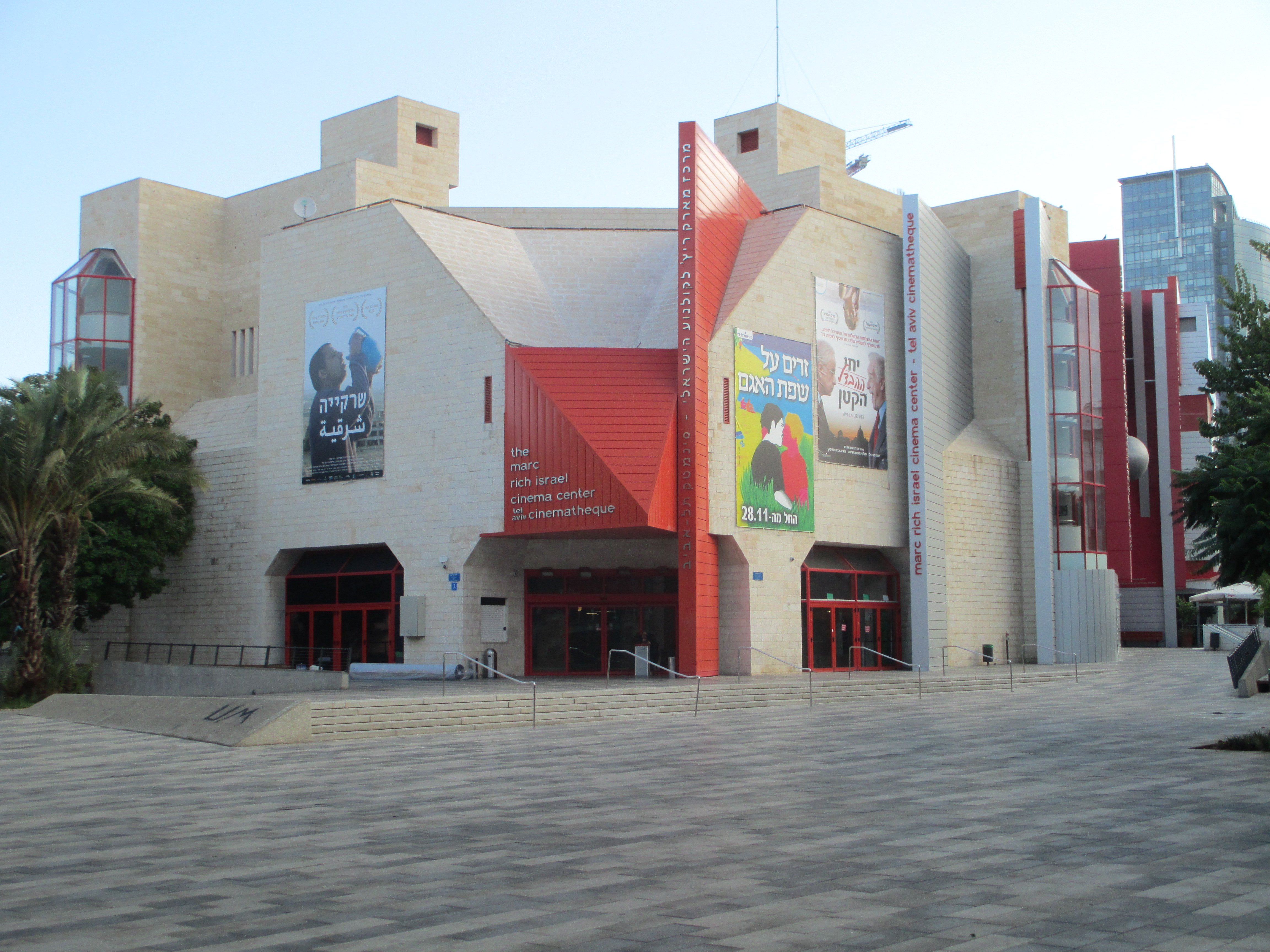 Tel Aviv Cinematheque